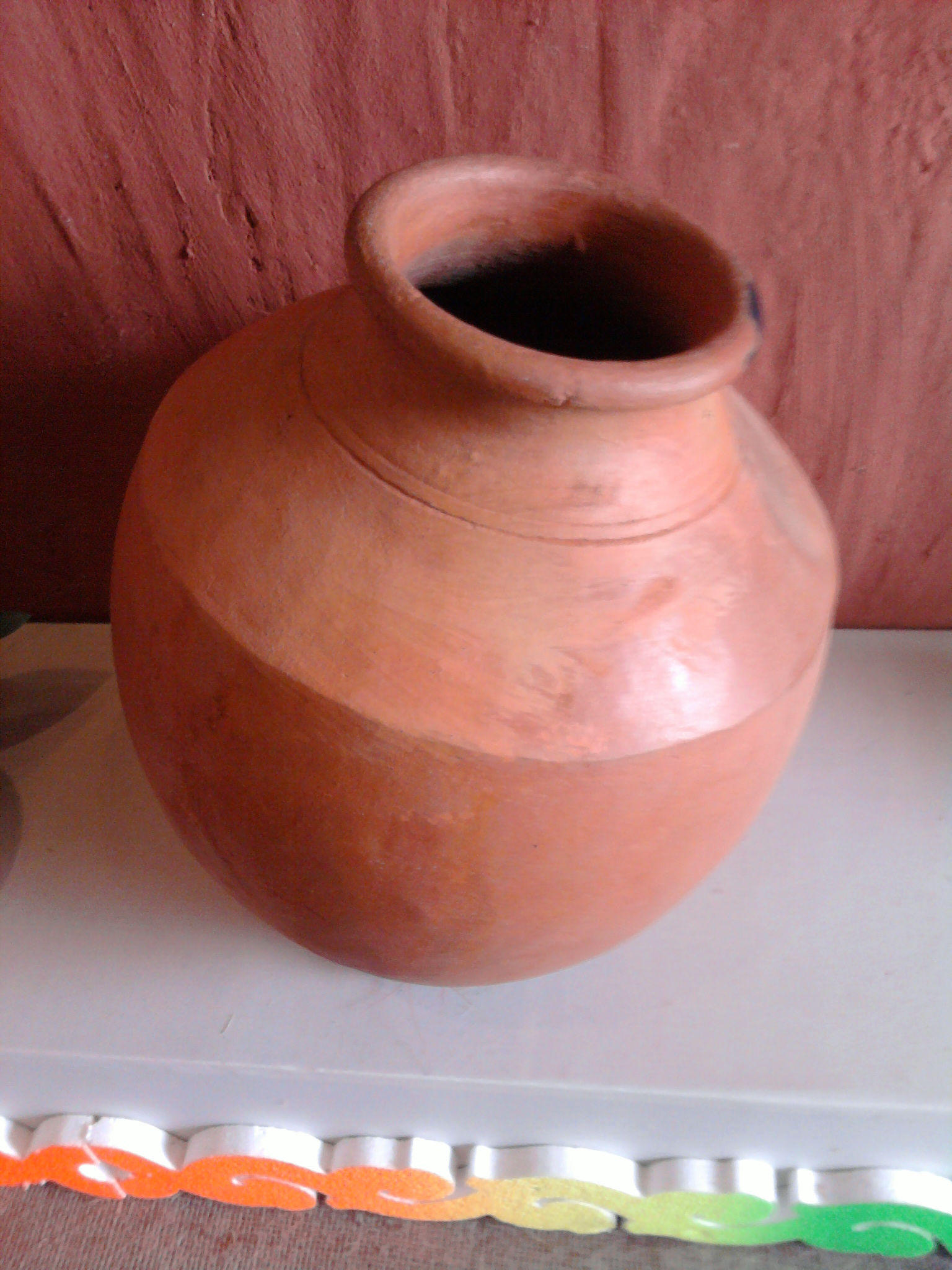 its name kunda in telugu. it is water filling vessel made with clay.